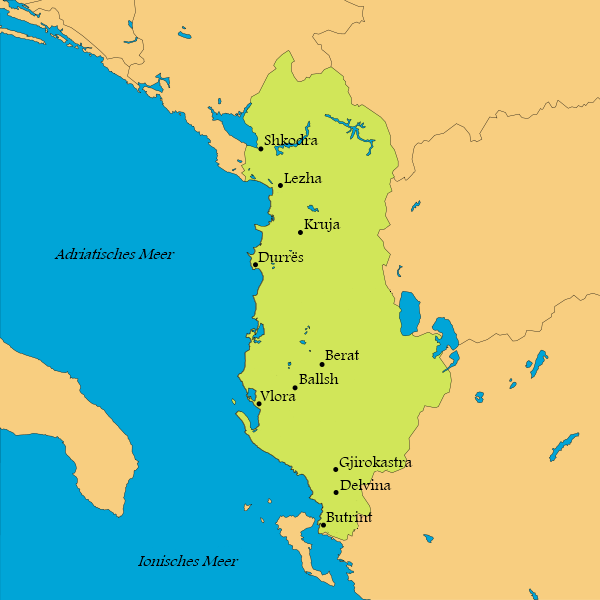 Cities or places in the Middle Ages in the territorium of modern Albania. The names haven't to be in albanian, but I use it in this way. They could also be in latin, greek or italian.